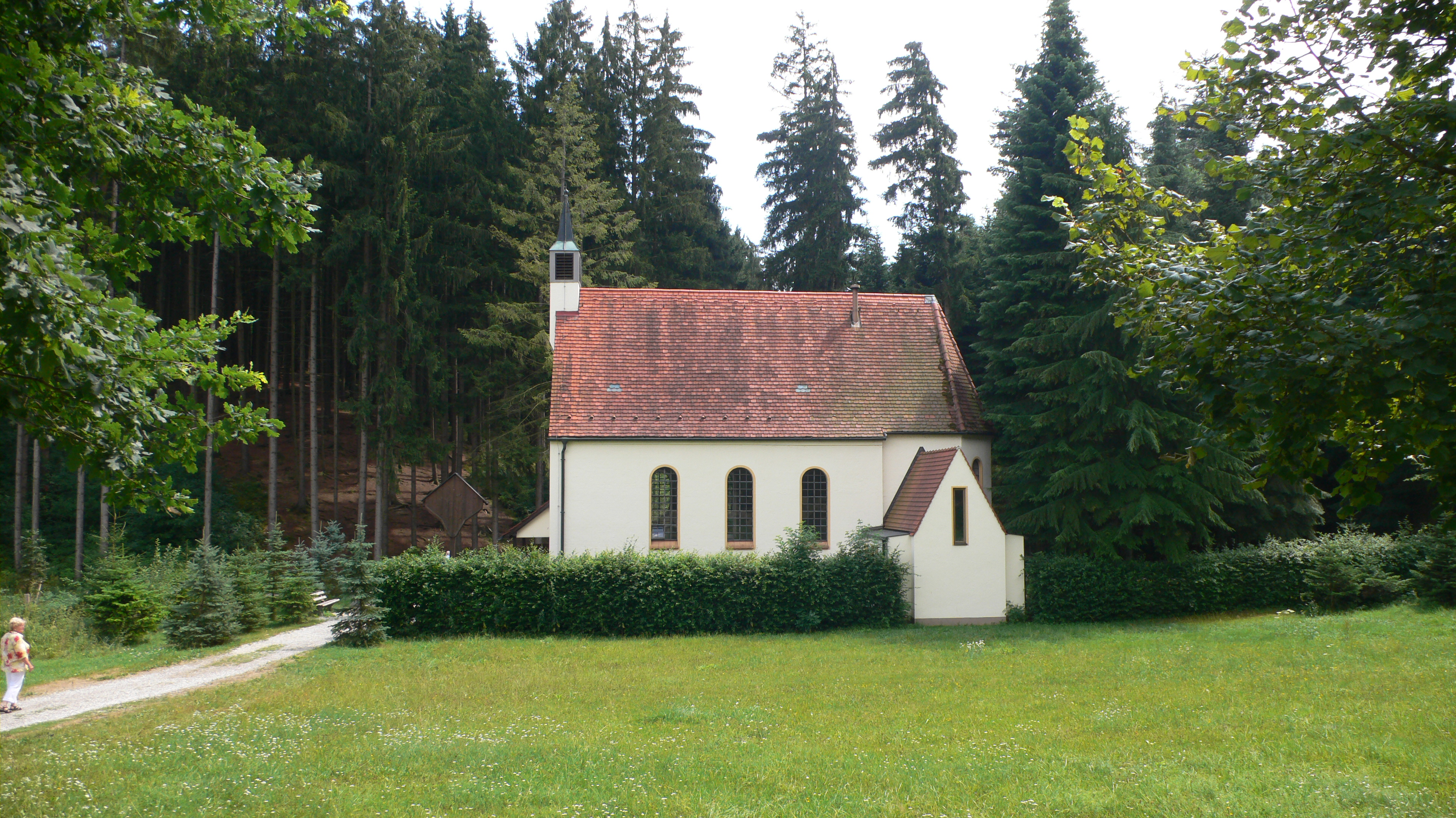 Unterbaar, view of the Pilgrimage Chapel "Maria im Elend" from north (parking site).